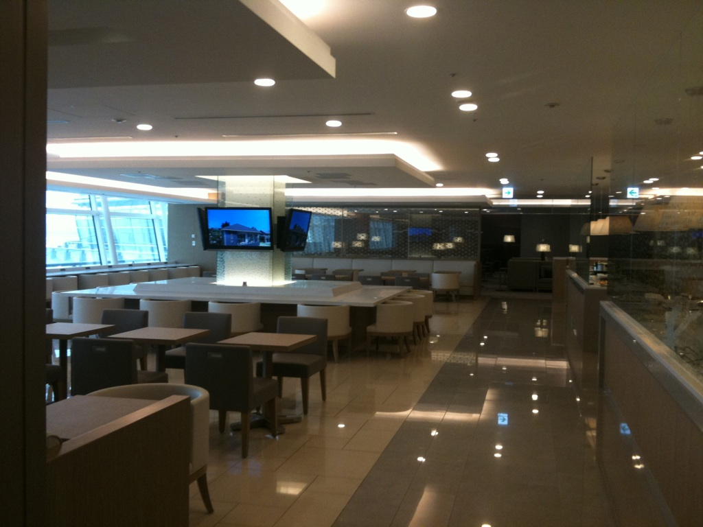 Japan Airlines Sakura Lounge, Tokyo International Airport International Terminal Airside